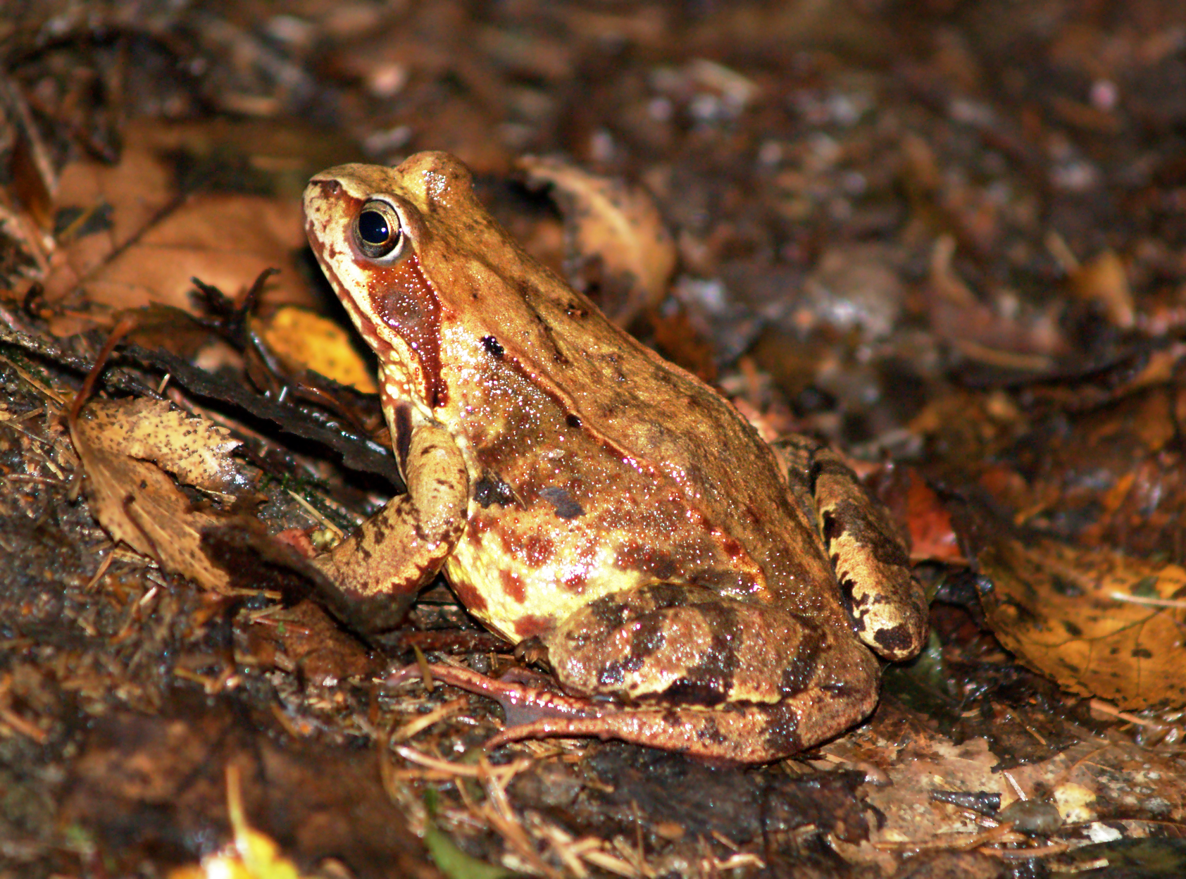 Common frog (Rana temporaria), female adult; Chemnitz, Germany